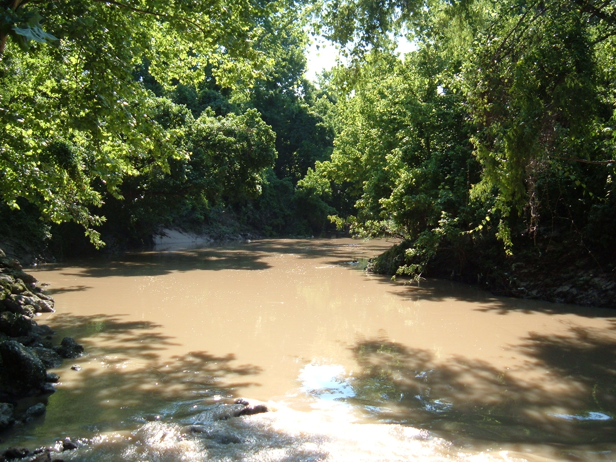 Buffalo Bayou in Houston, TX, USA. Photo taken at this location.